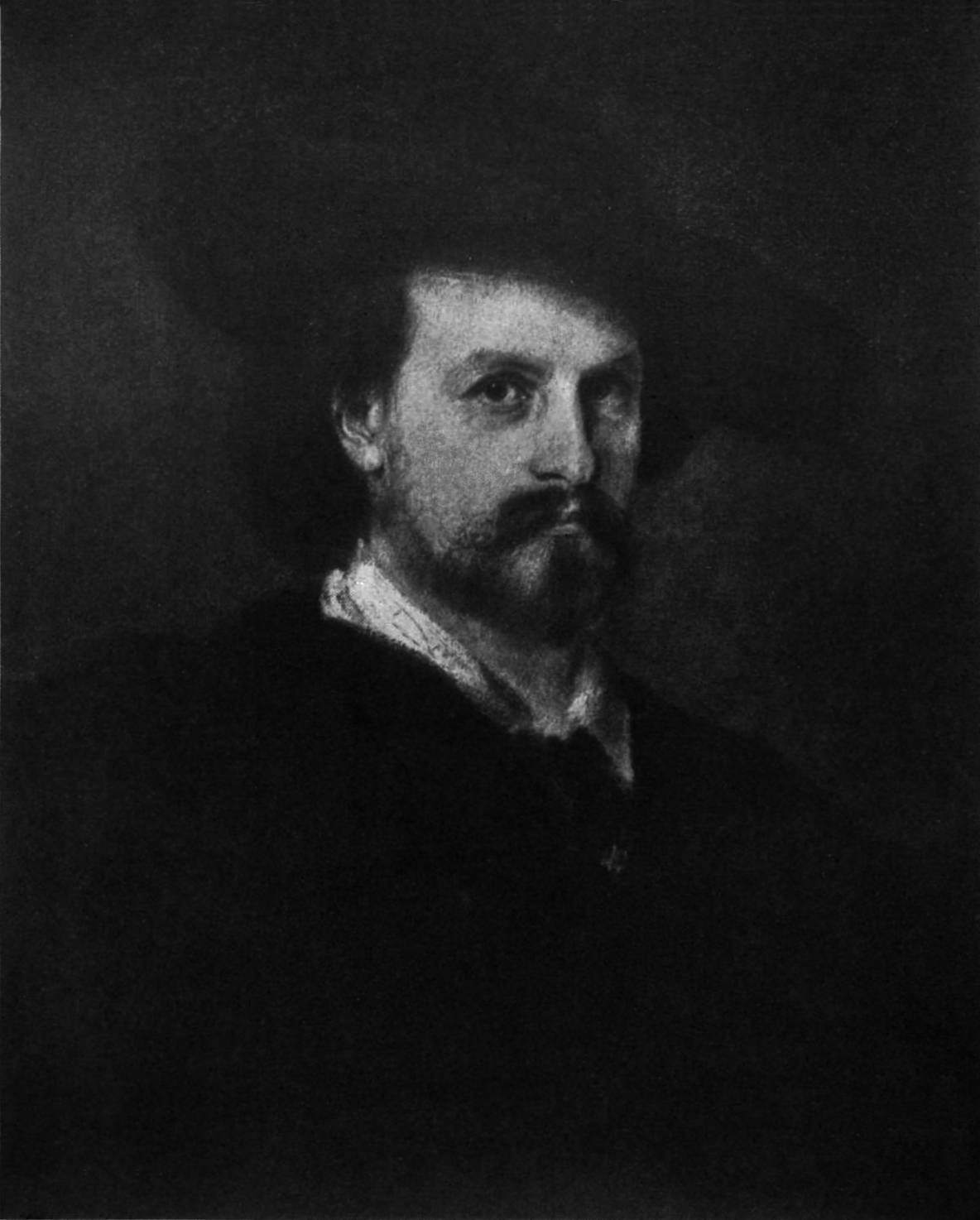 Portrait of Adolf Wilbrandt by Franz Lenbach.